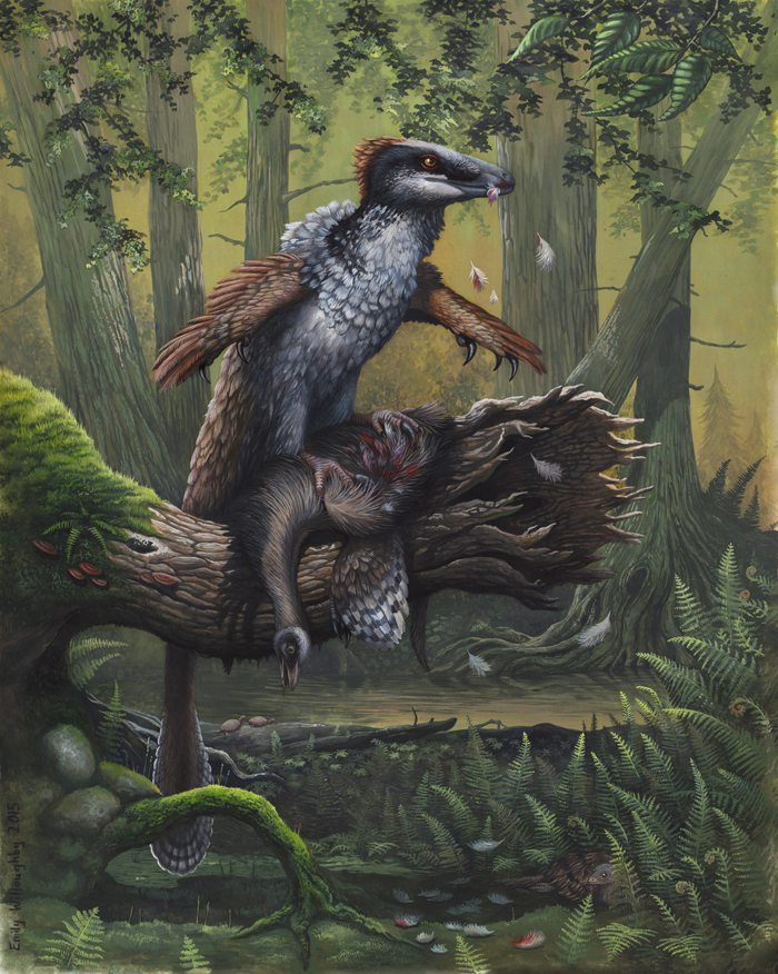 Life reconstruction of Dakotaraptor for DePalma et al 2015, showing the animal engaged in "RPR behavior" with Ornithomimus prey.